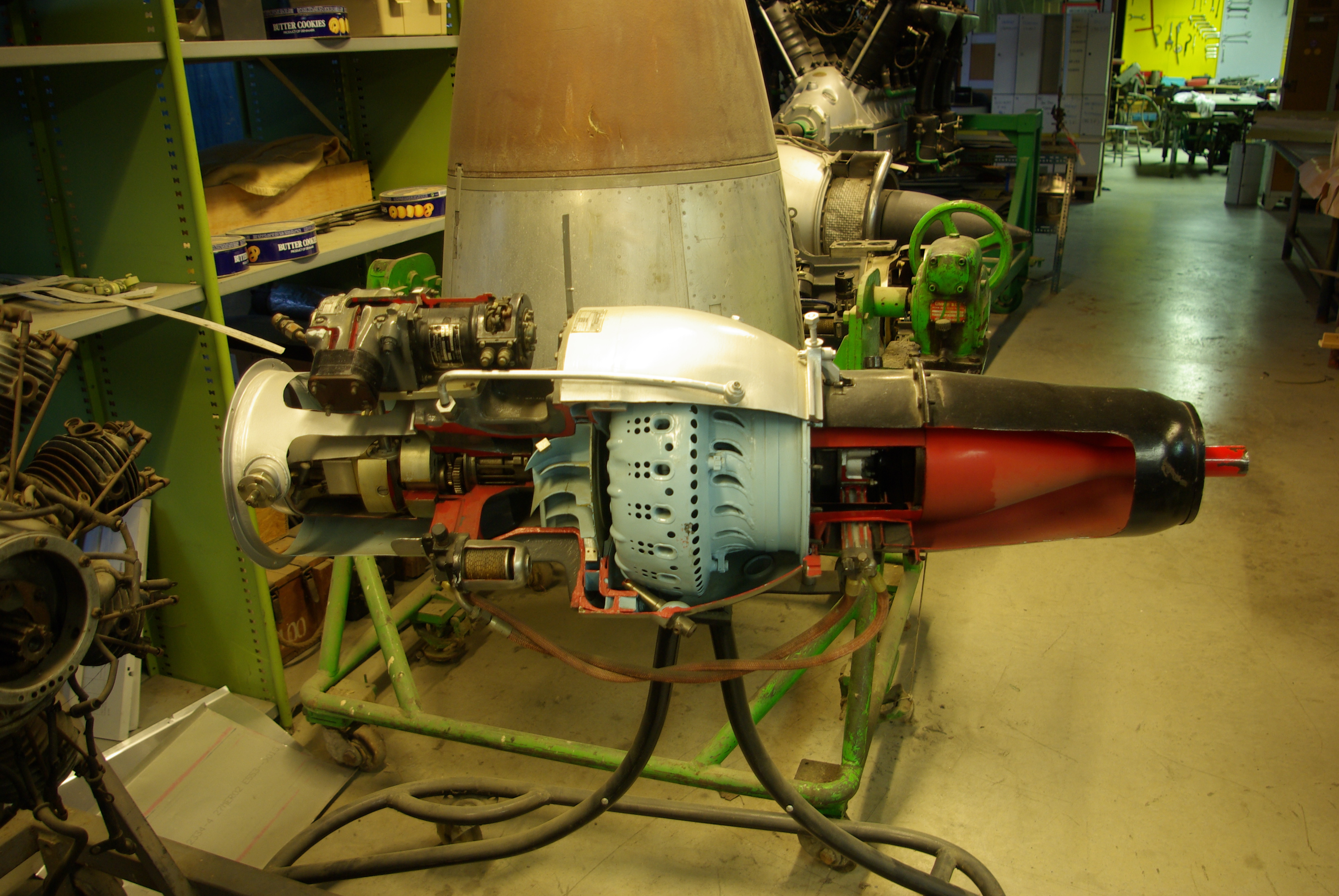 Cutaway of a turbojet engine Turbomace Palas.